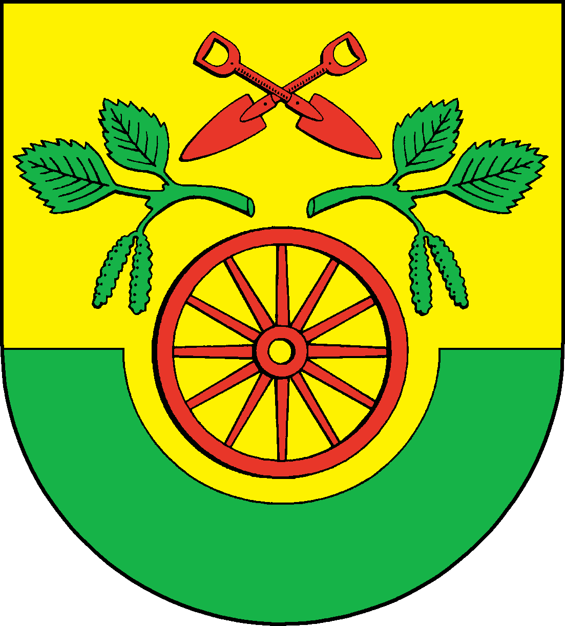 Coat of arms of the municipality Daldorf in Schleswig-Holstein, Germany.